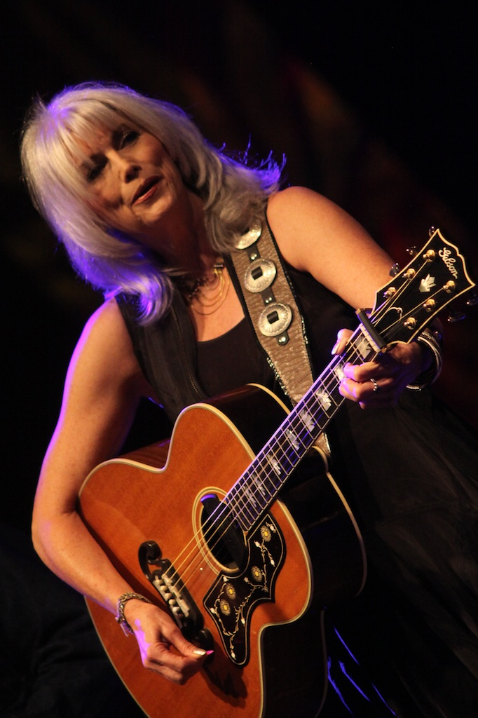 Emmylou Harris playing at the 2011 Greenbelt Harvest Picnic in Ontario, Canada, August 27th, 2011